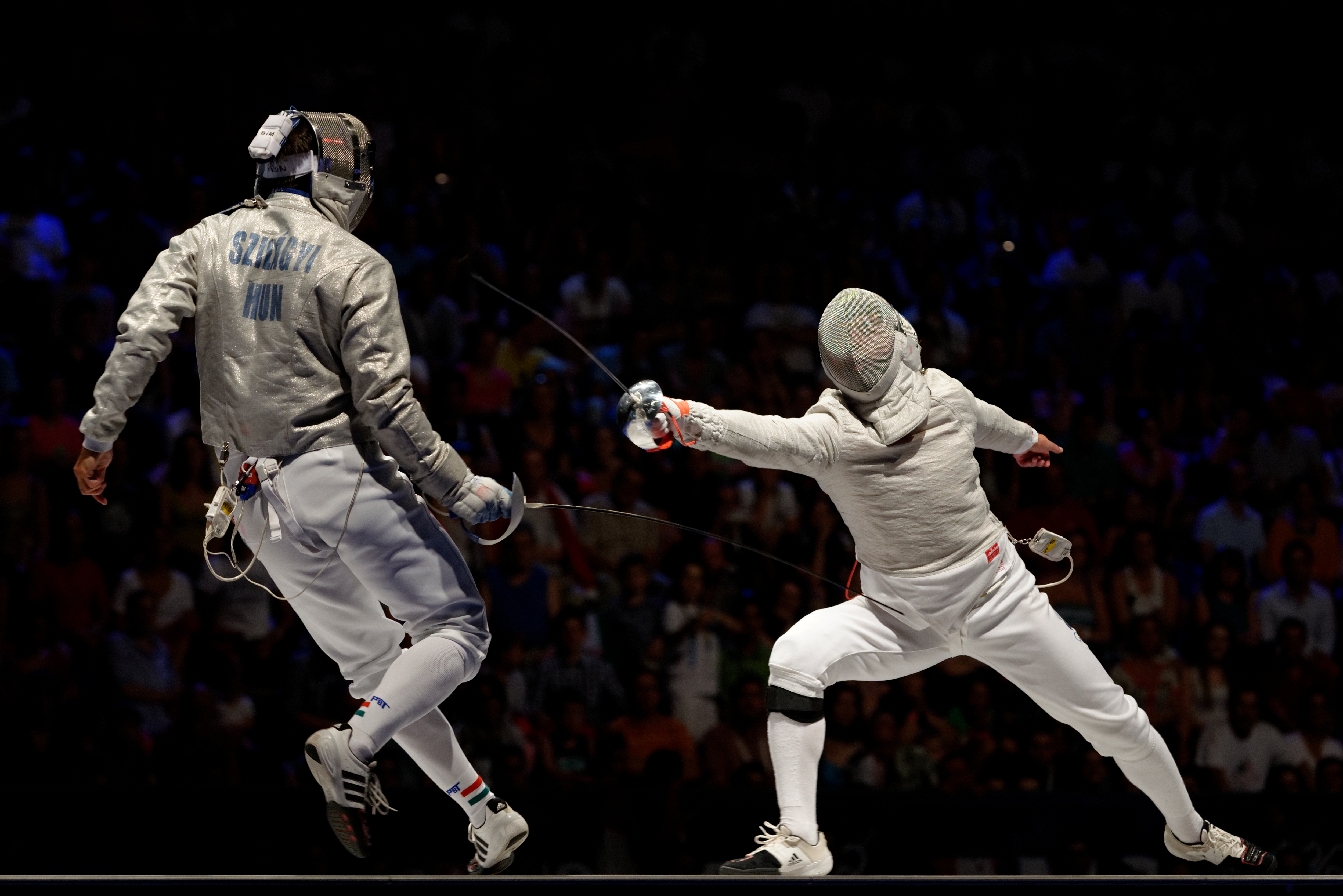 Hungary's Áron Szilágyi (L) fences against Russia's Nikolay Kovalev (R) in the men's sabre semi-finals of the 2013 World Fencing Championships at Syma Hall in Budapest, 10 August 2013.